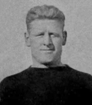 Oregon State Beavers football coach R. B. Rutherford